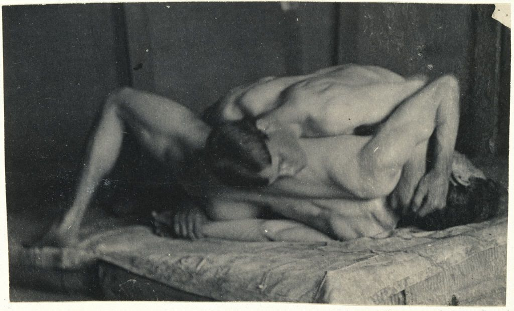 Photograph study for "The Wrestlers"